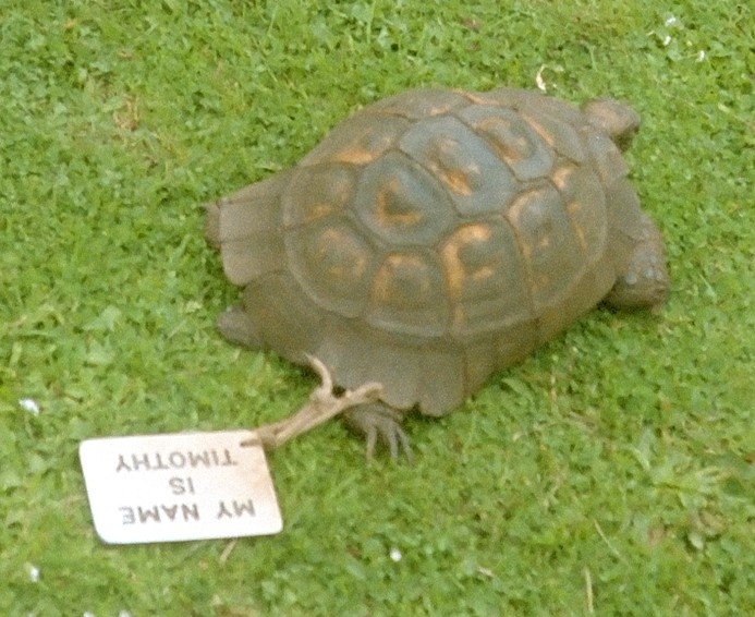 This is Timothy the tortoise in the garden of Powderham Castle.